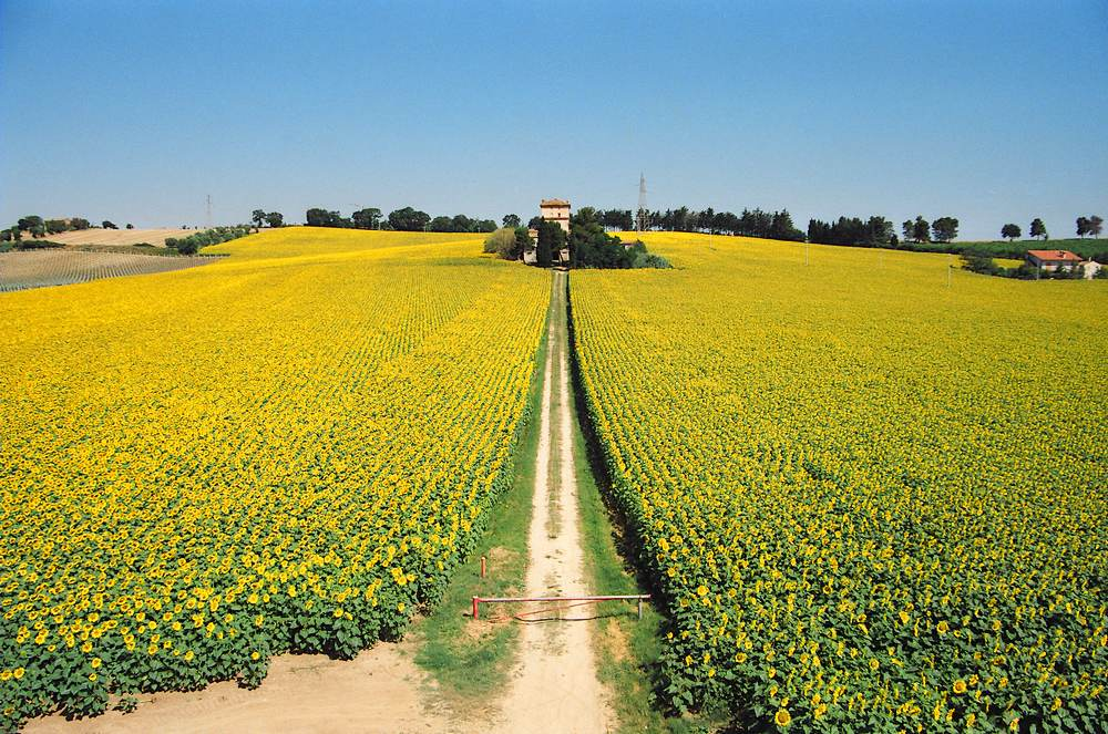 The Palombarone surrounded by sunflowers.